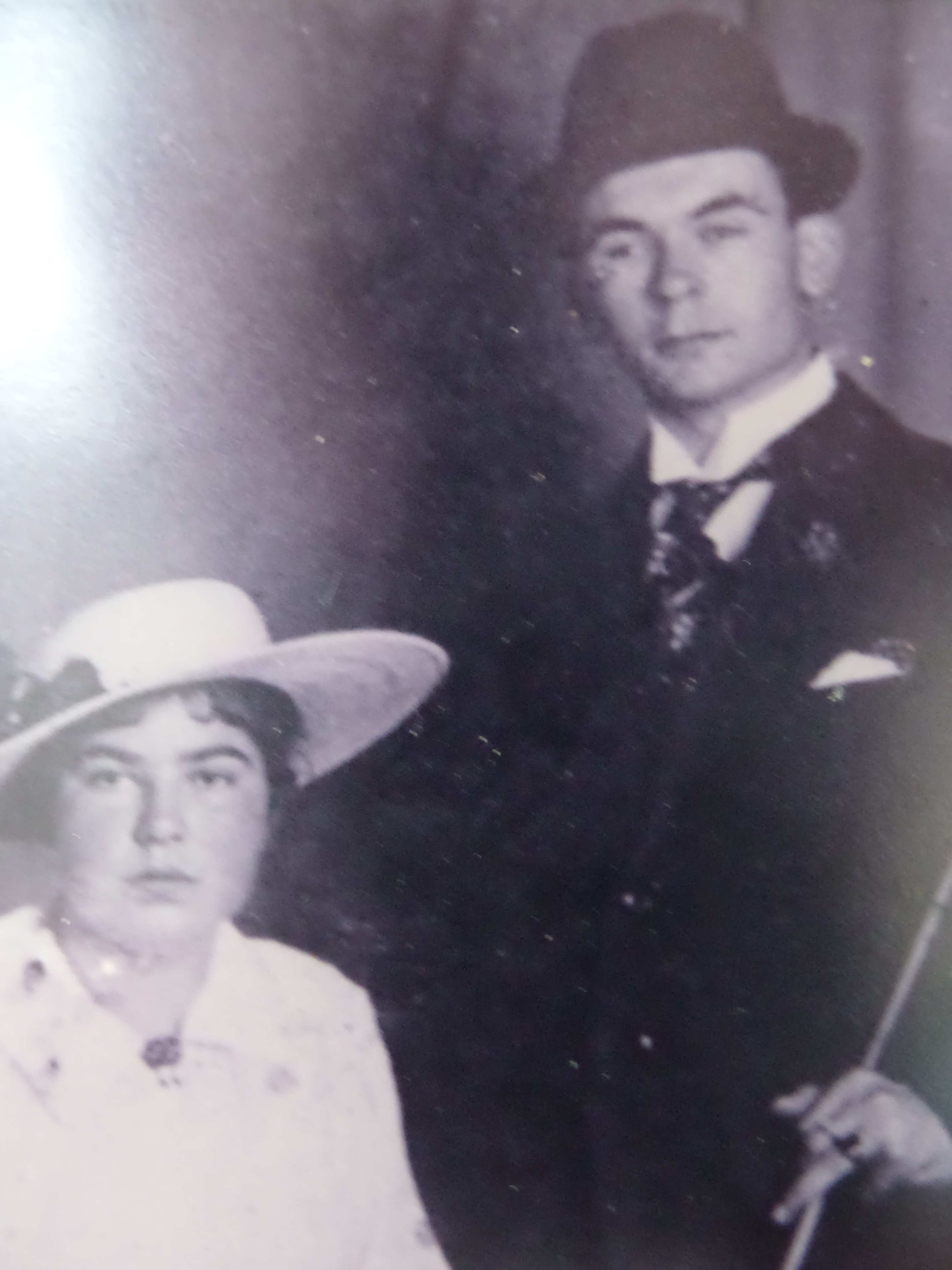 Mariage of Martin and Flora